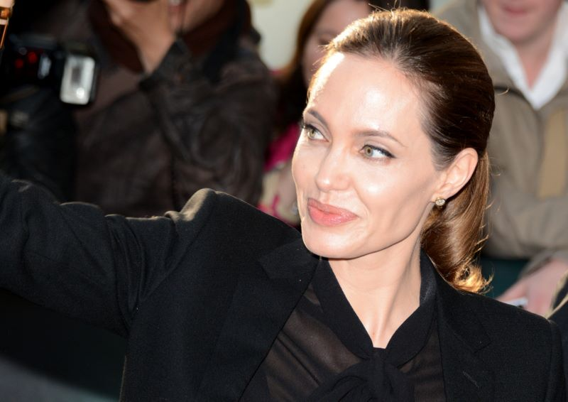 Angelina Jolie at the Cannes film festival